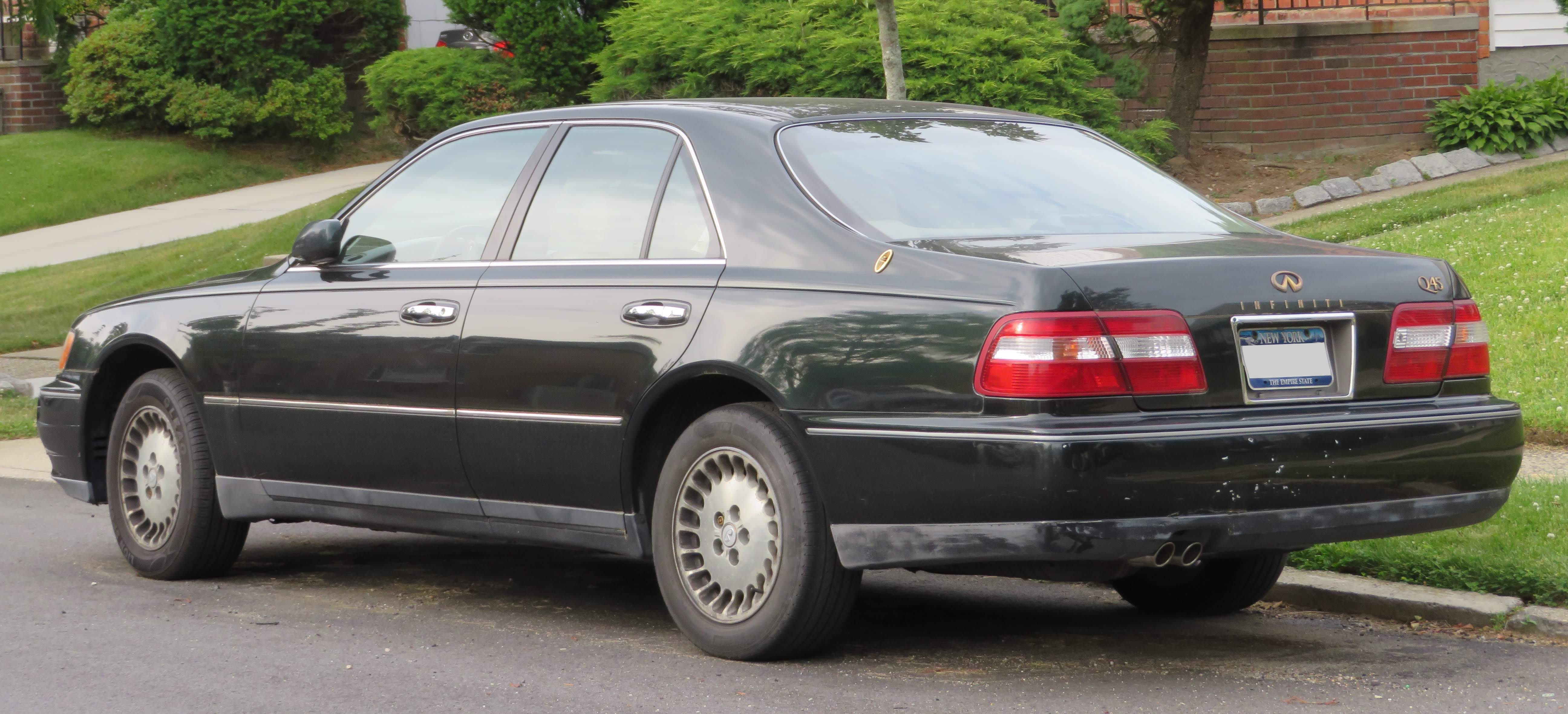 Photographed in Queens, New York